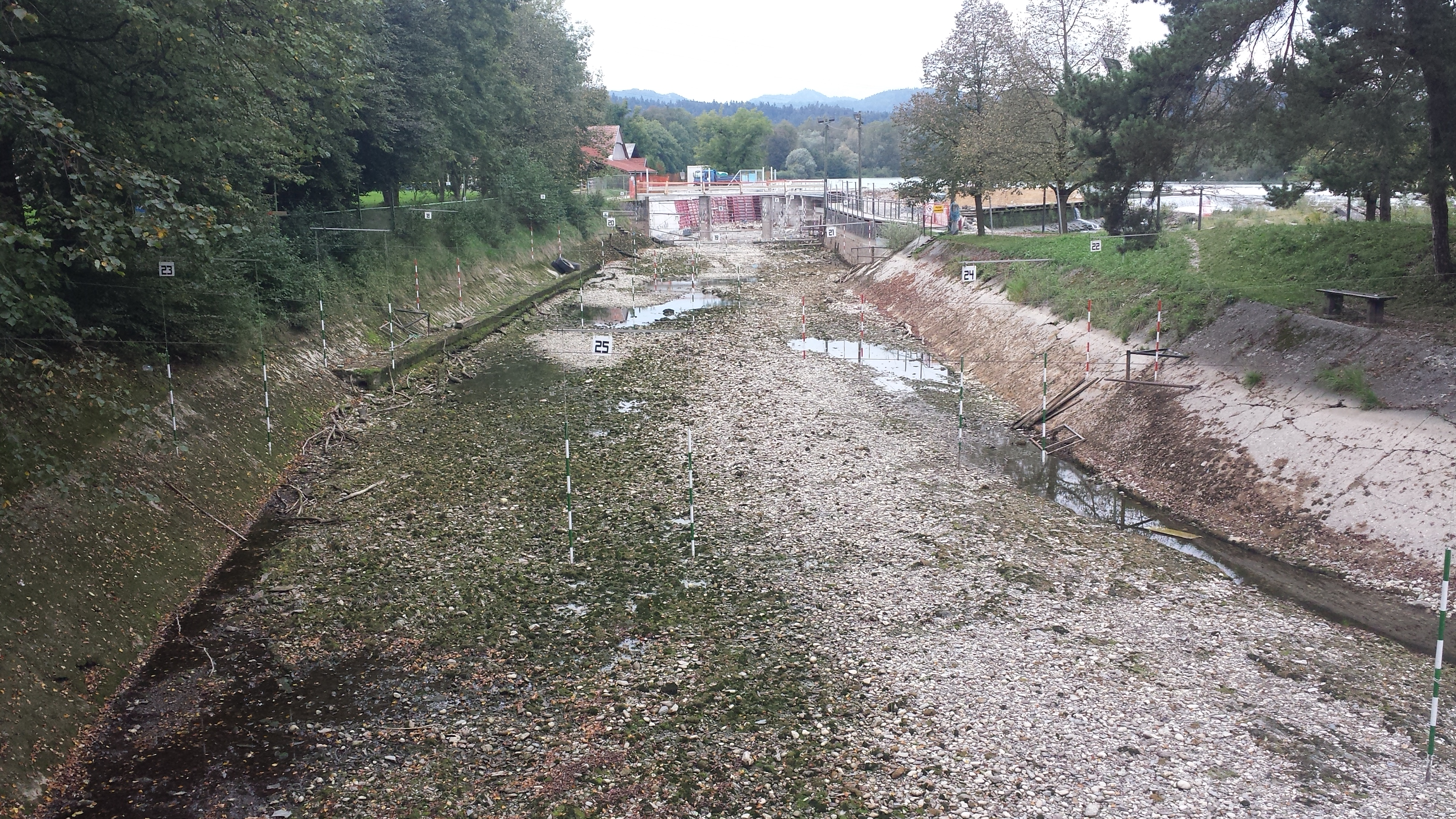 Kayak center Slovenija, Tacen, reconstruction 2019